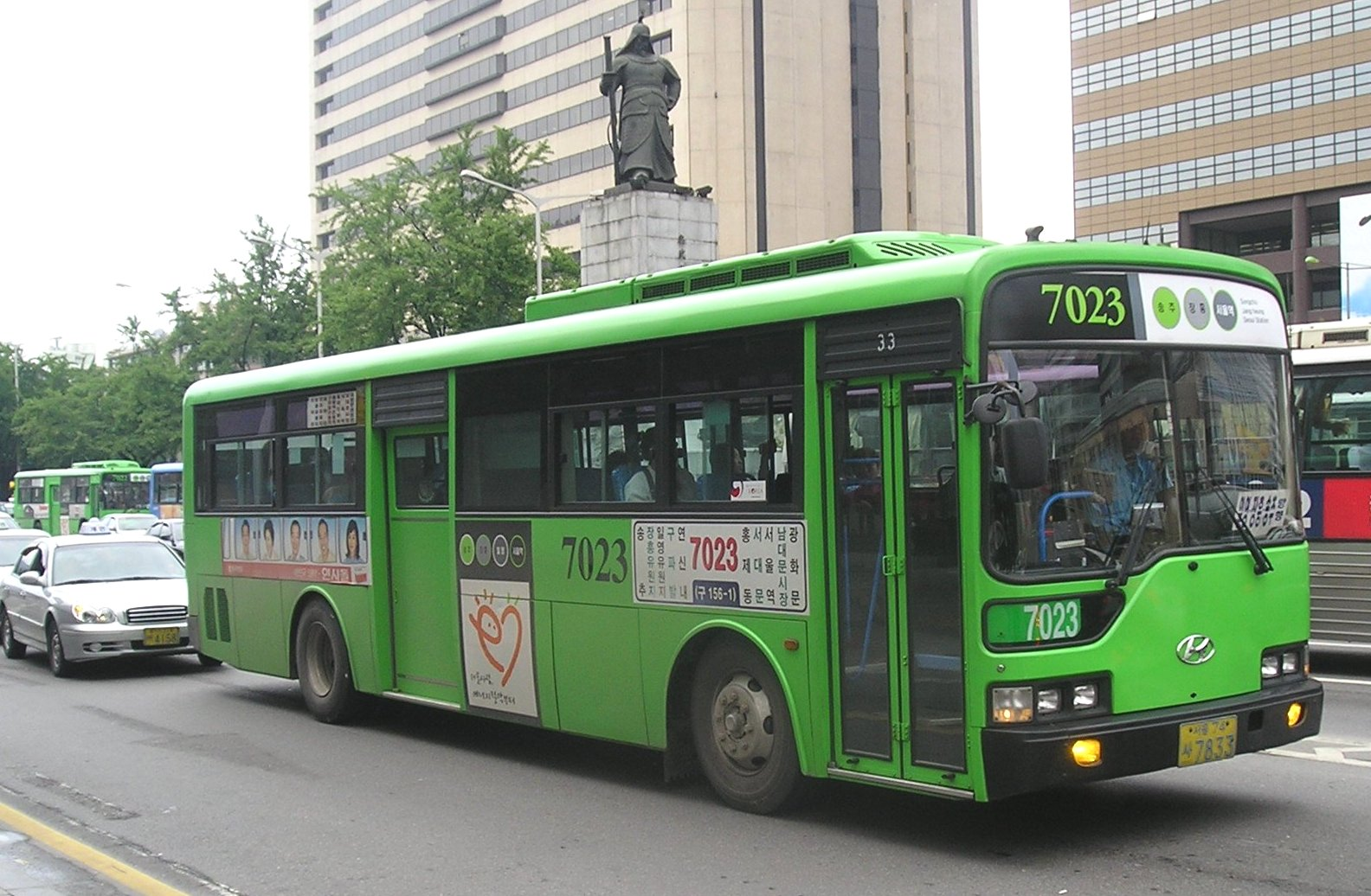 The Seoul City Green bus route 7023.